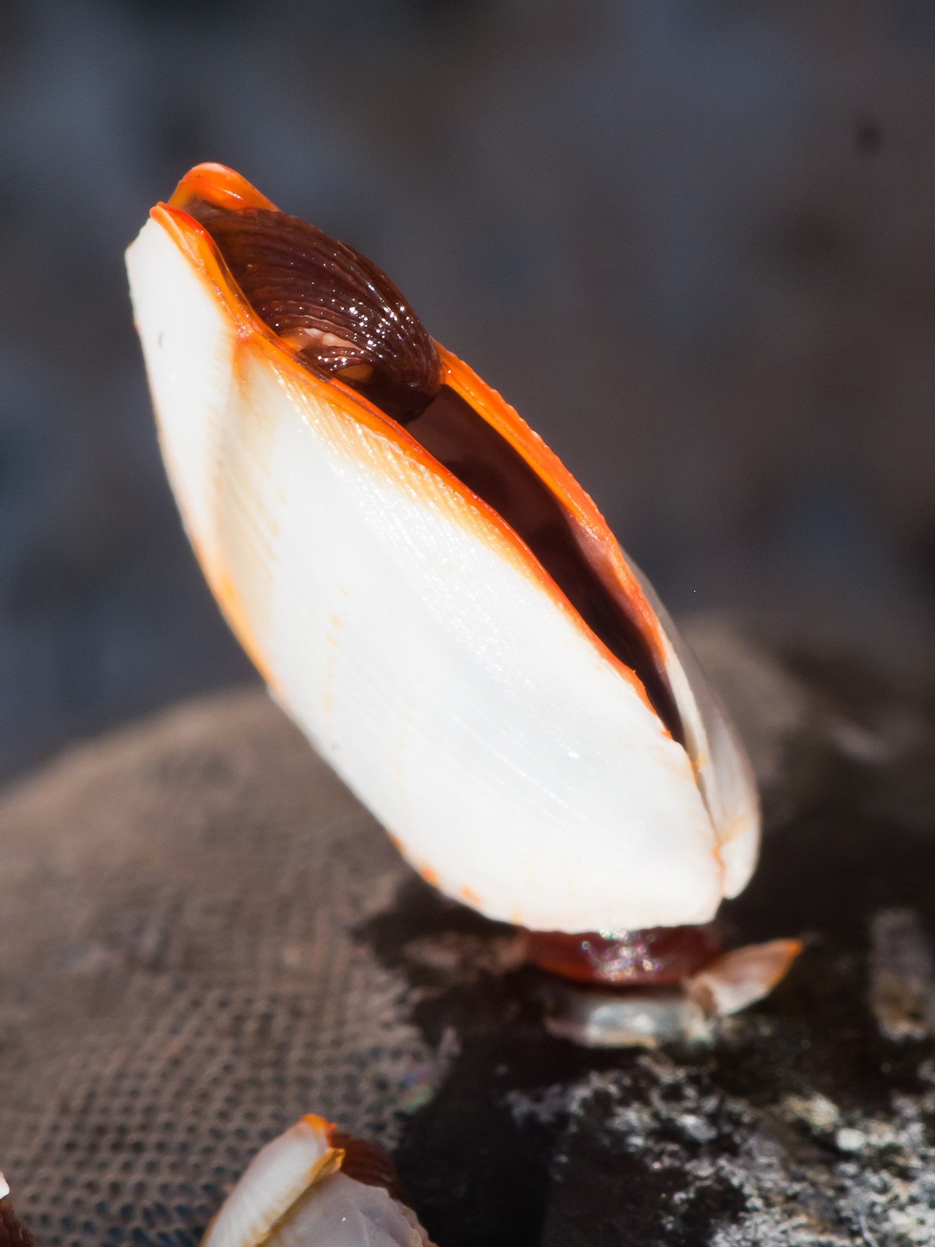 Lepas anatifera, Quintana Roo, Mexico